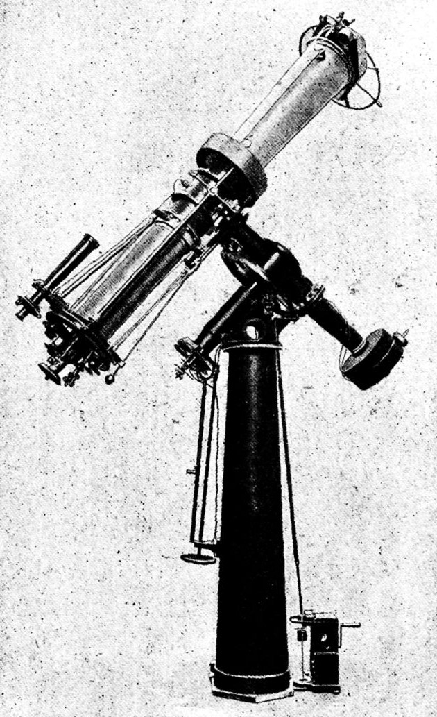 Heliometer of the Kuffner-Observatory, Vienna, Austria